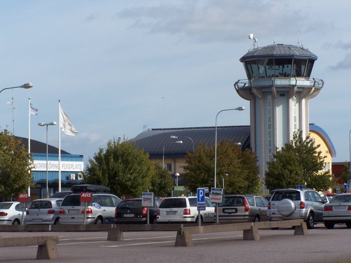 Norrköping Airport, hösten 2005, Sweden